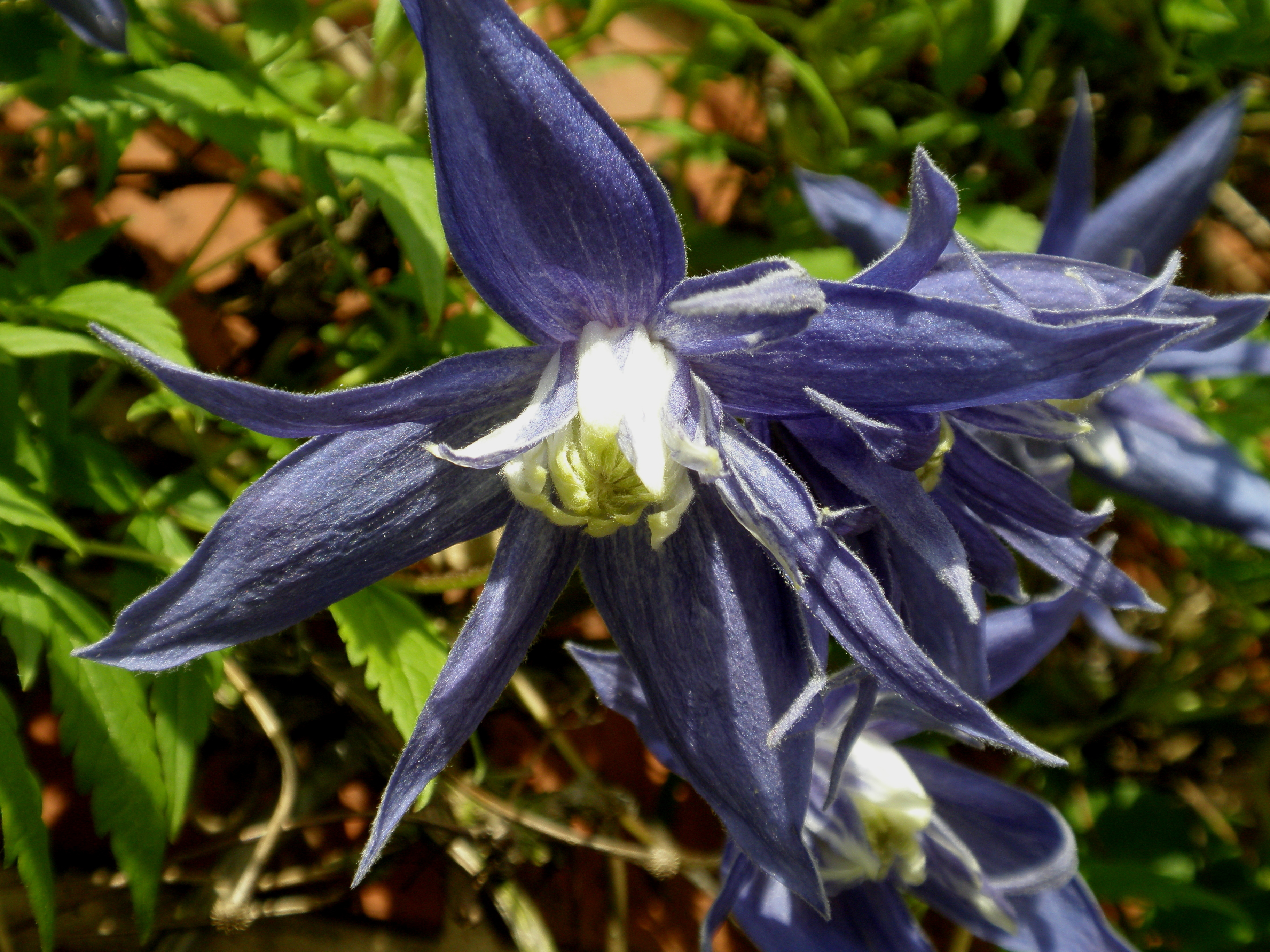 Out today! Clematis macropetala 'Lagoon'